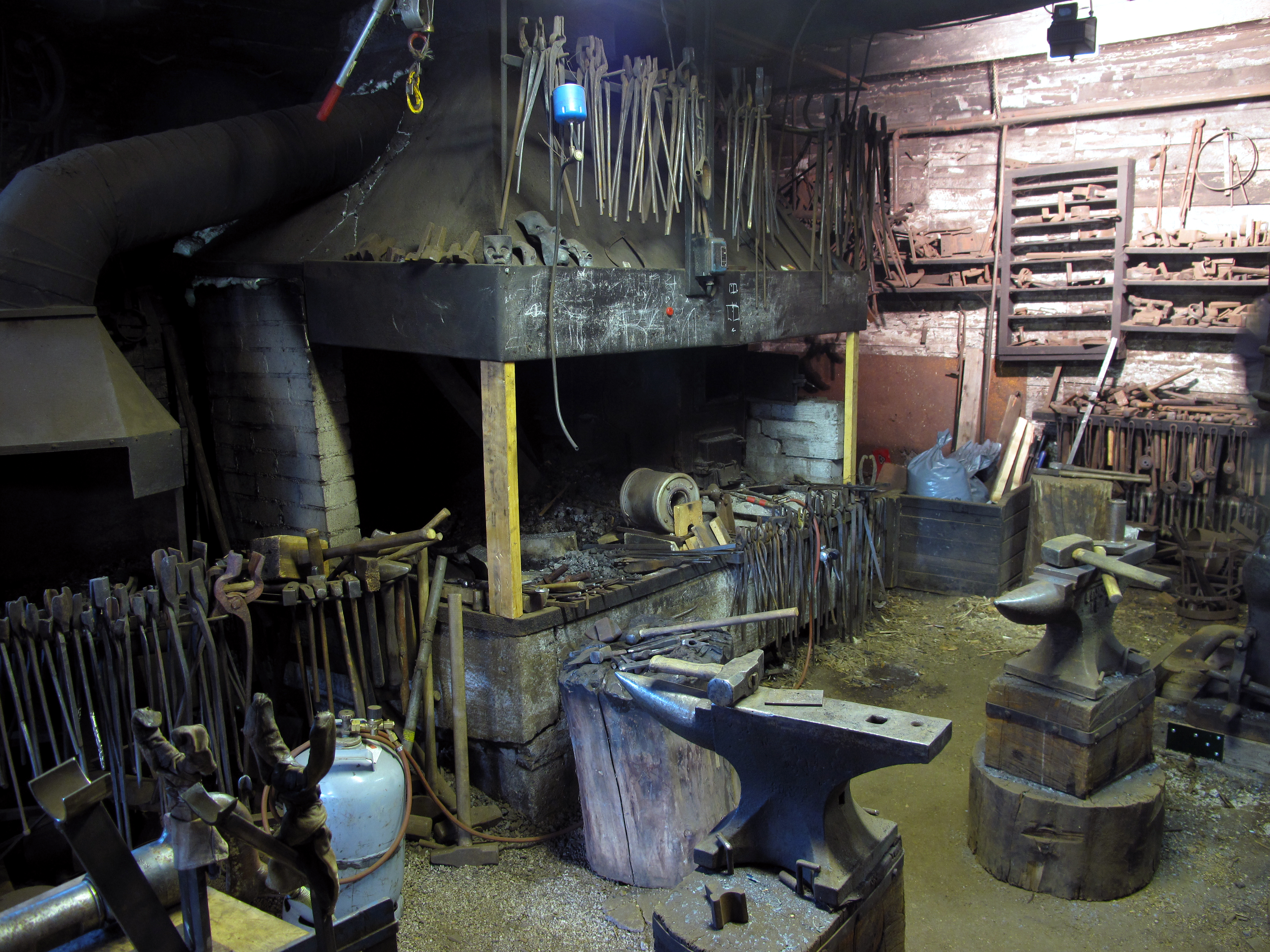 A typical smithy in Finland. Shot during a tourist trip to artist blacksmith Jesse Sipolas smithy next to lake Bodom.